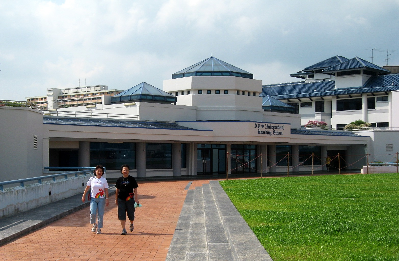 Anglo-Chinese School (Independent) Boarding School at Dover Road, Singapore.